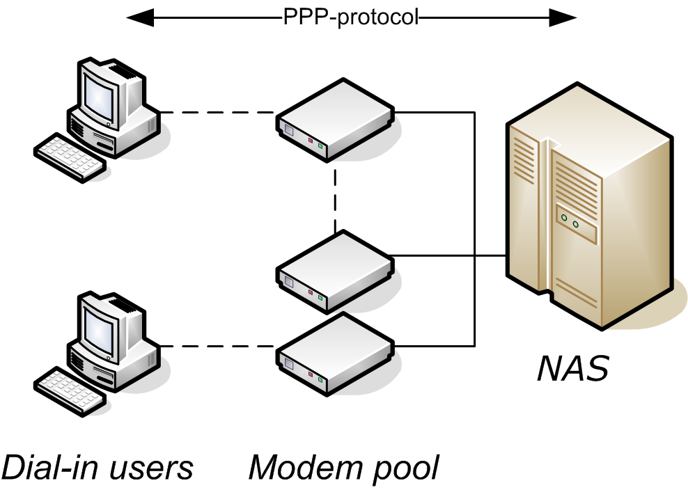 Diagram of computers connecting with the PPP protocol to an ISP modem pool and network access server (NAS).